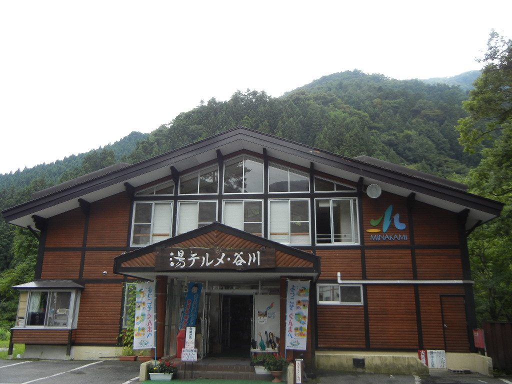 Yuterume_Tanigawa. みなかみ町にある町営温泉「湯テルメ谷川」, Minakami.